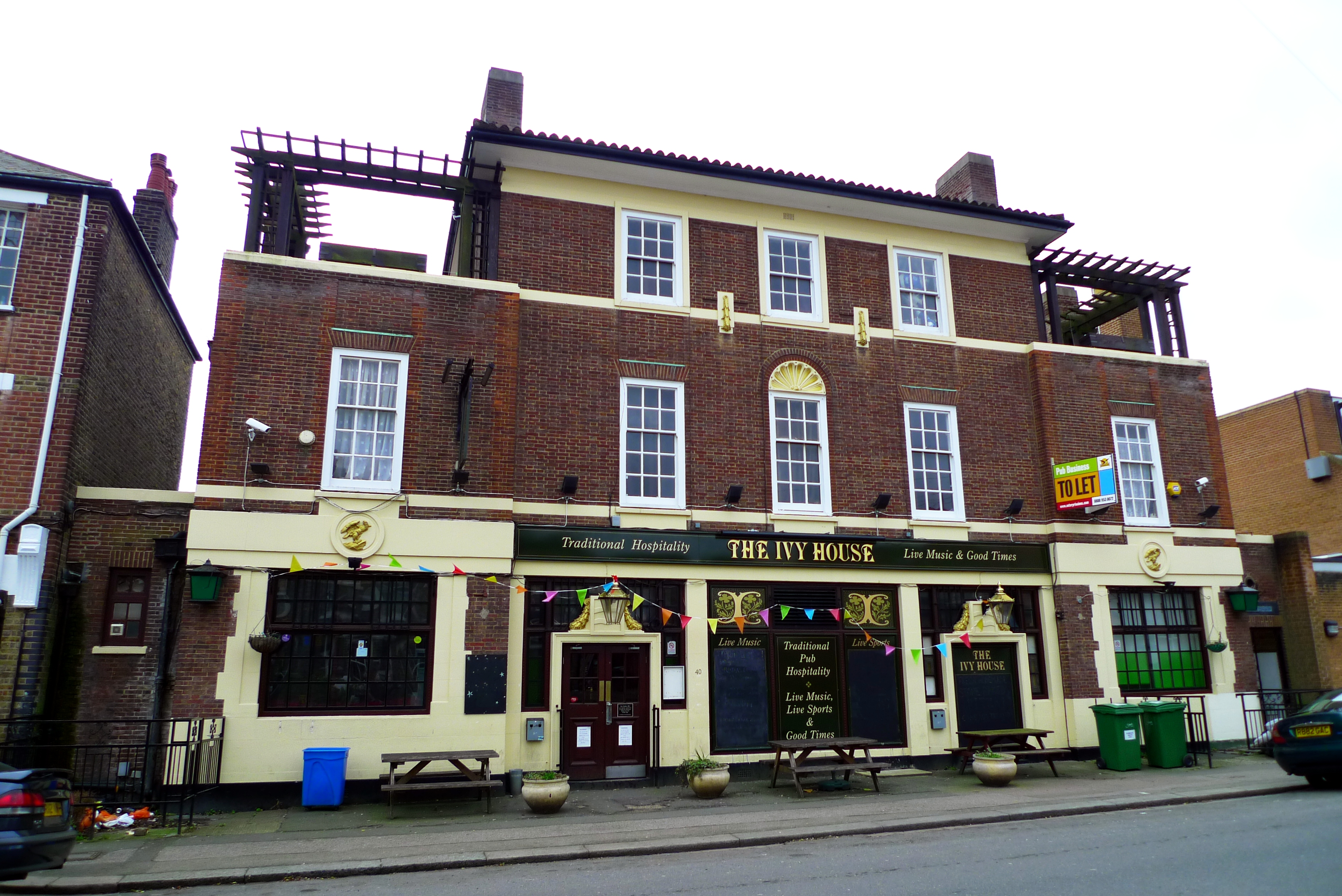 A perfectly friendly and decent boozer with a fantastic back room and stage. It closed as of early-2011, though it reopened in June 2011 and has now closed in April 2012. A fight is underway to save it as a pub... (Photo of the front.) (Photo of menu, July 2011.) ( Photo of veggie burger.) Address: 40 Stuart Road. Former Name(s): The Stuart Arms; The Newlands Tavern. Owner: Enterprise Inns (former); Truman Hanbury Buxton (former). Links: Randomness Guide to London Fancyapint Pubs Galore Beer in the Evening Dead Pubs (history)